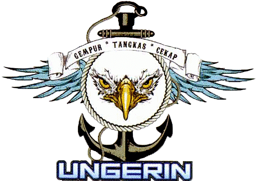 The official crest of Marine Combat Unit special operations force or known as UNGERIN.